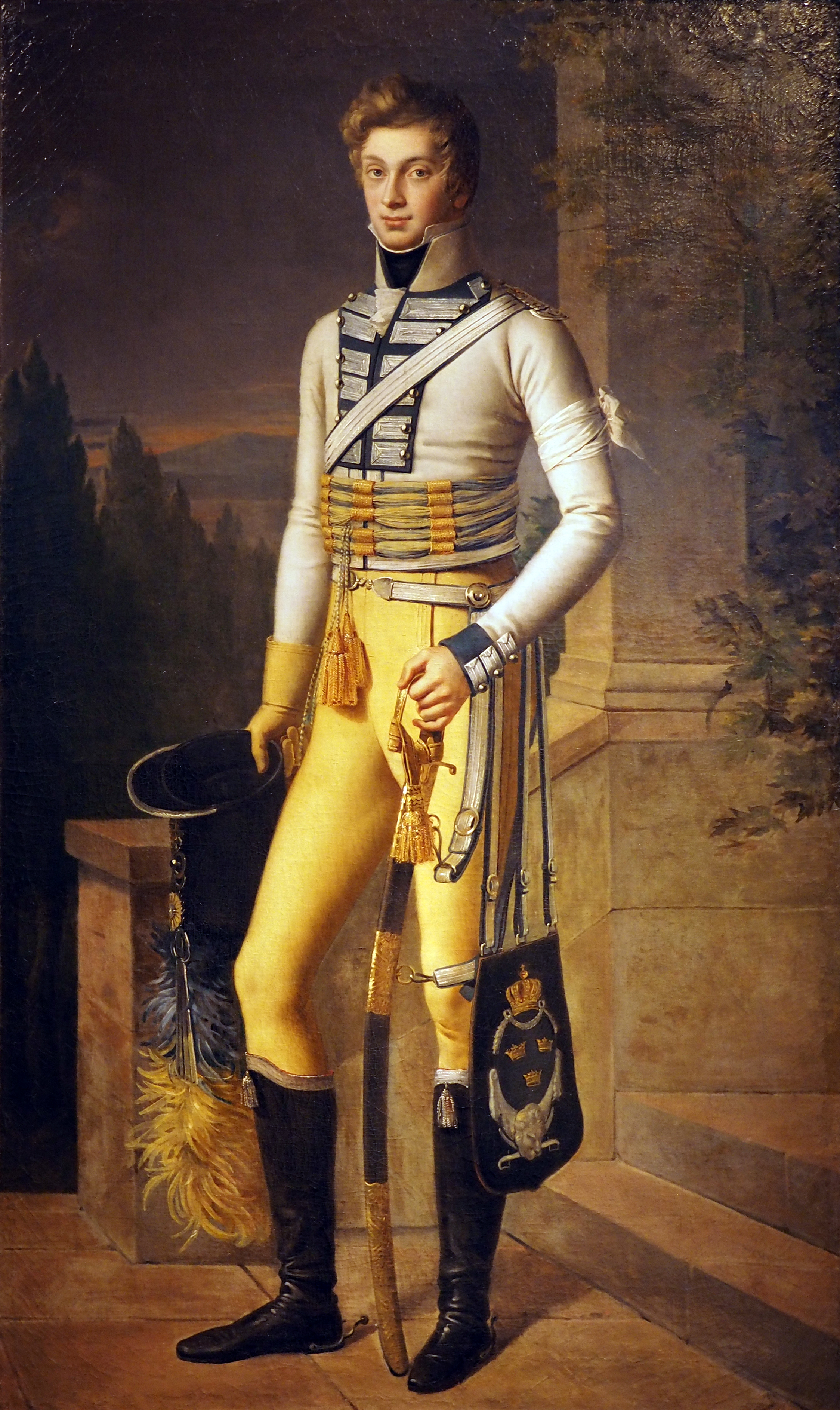 Wilhelm Malte, Count and Lord, later 1st Prince of Putbus, in the uniform of a Swedish Light Life Dragoon Regiment officer